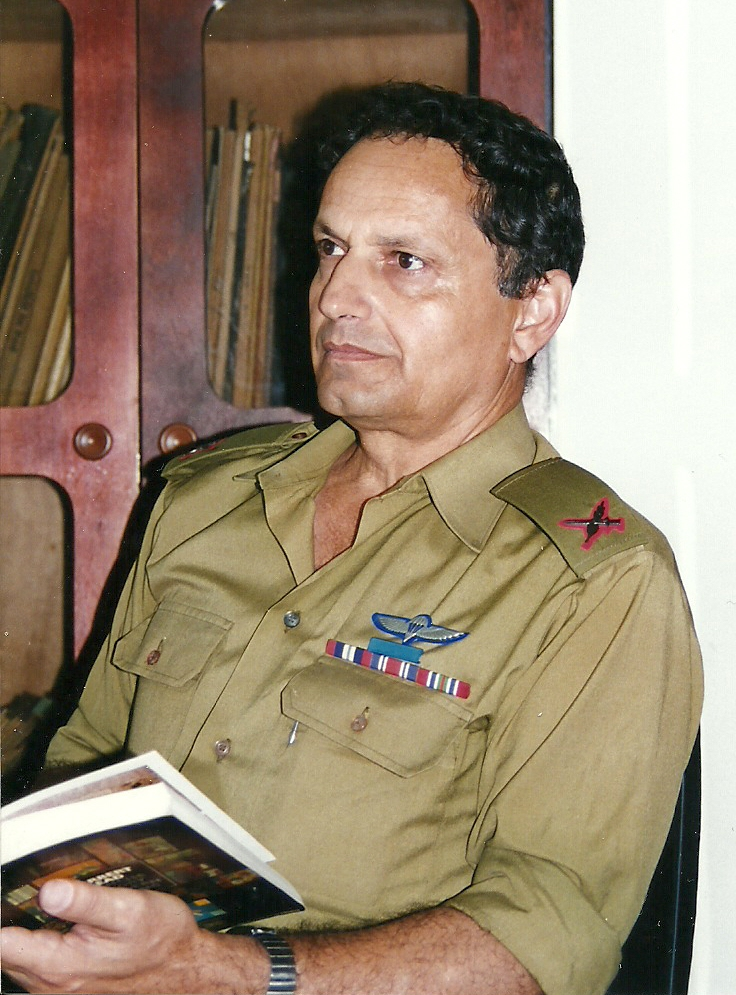 Eliashiv Shimshi